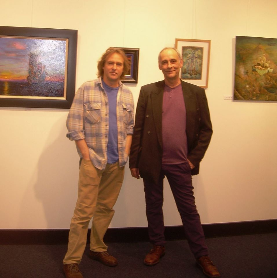 The artists Mark Burrell and Peter Rodulfo at Great Yarmouth Library Exhibition 2014